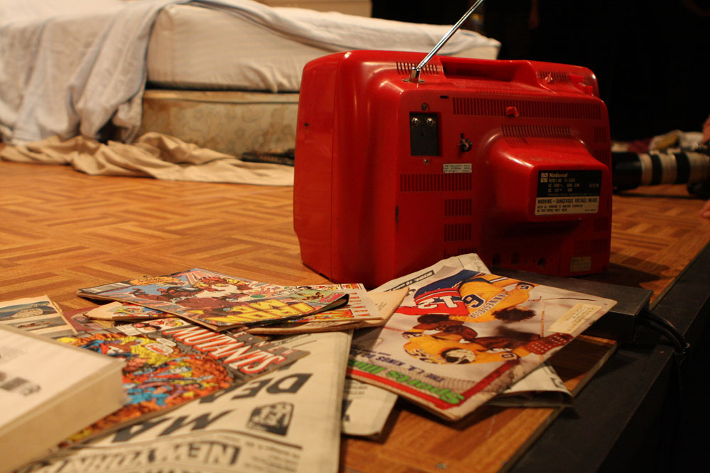 A portable television and comic books are props on the floor of a set from a March 2012 Australian production of Kenneth Lonergan's This Is Our Youth at Sydney Opera House